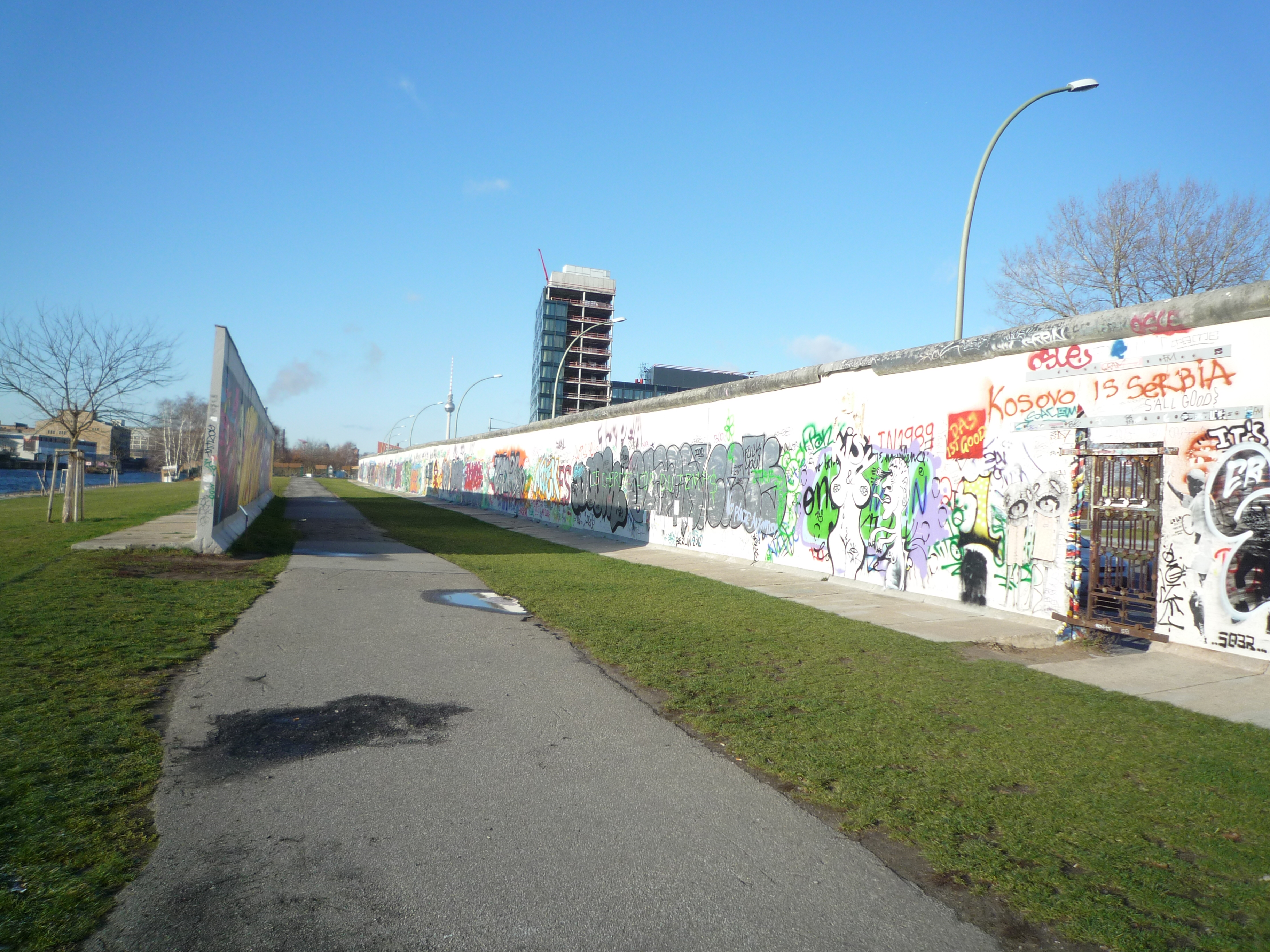 Part of the remnants of the Berlin Wall called the East Side Gallery, between the Mühlenstraße (which runs parallel behind the wall on the right) and the river Spree (left). More recent graffiti can be seen on wall, such as the text "Kosovo is Serbia", which indicates continuing vandalism despite warnings from Berlin authorities.